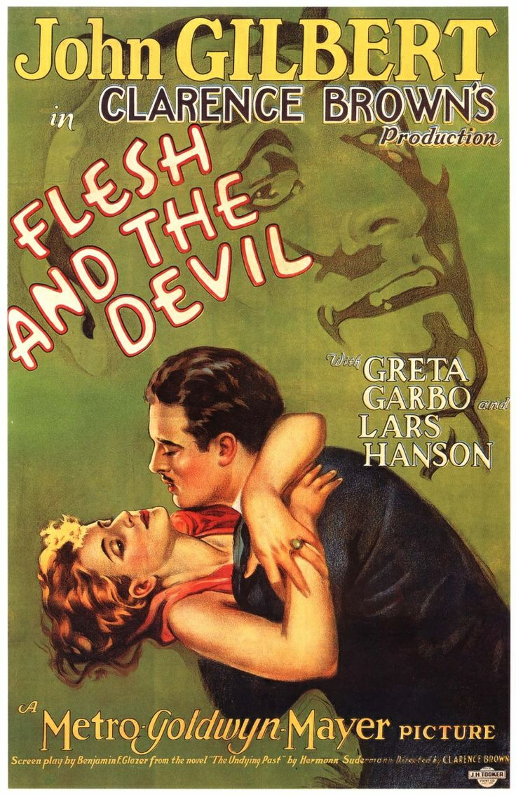 Poster for Flesh and the Devil, an American movie directed by Clarence Brown.